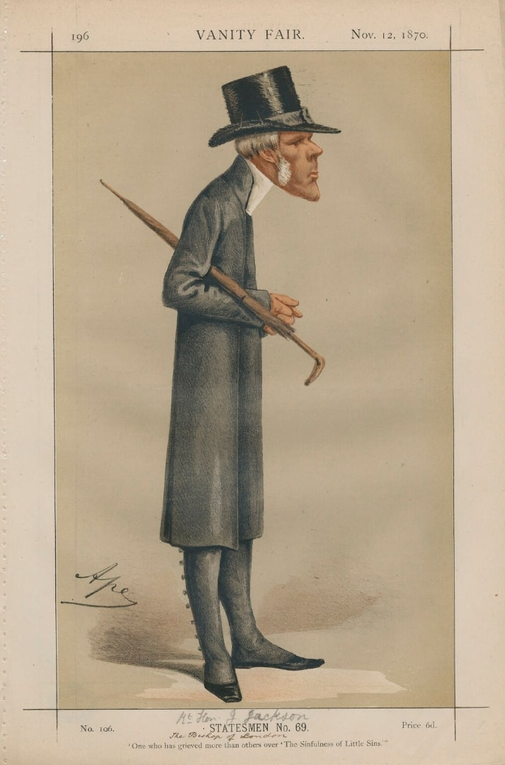 Caricature of John Jackson, Bishop of London. Caption read "One who has grieved more than others over 'The Sinfulness of Little Sins'".